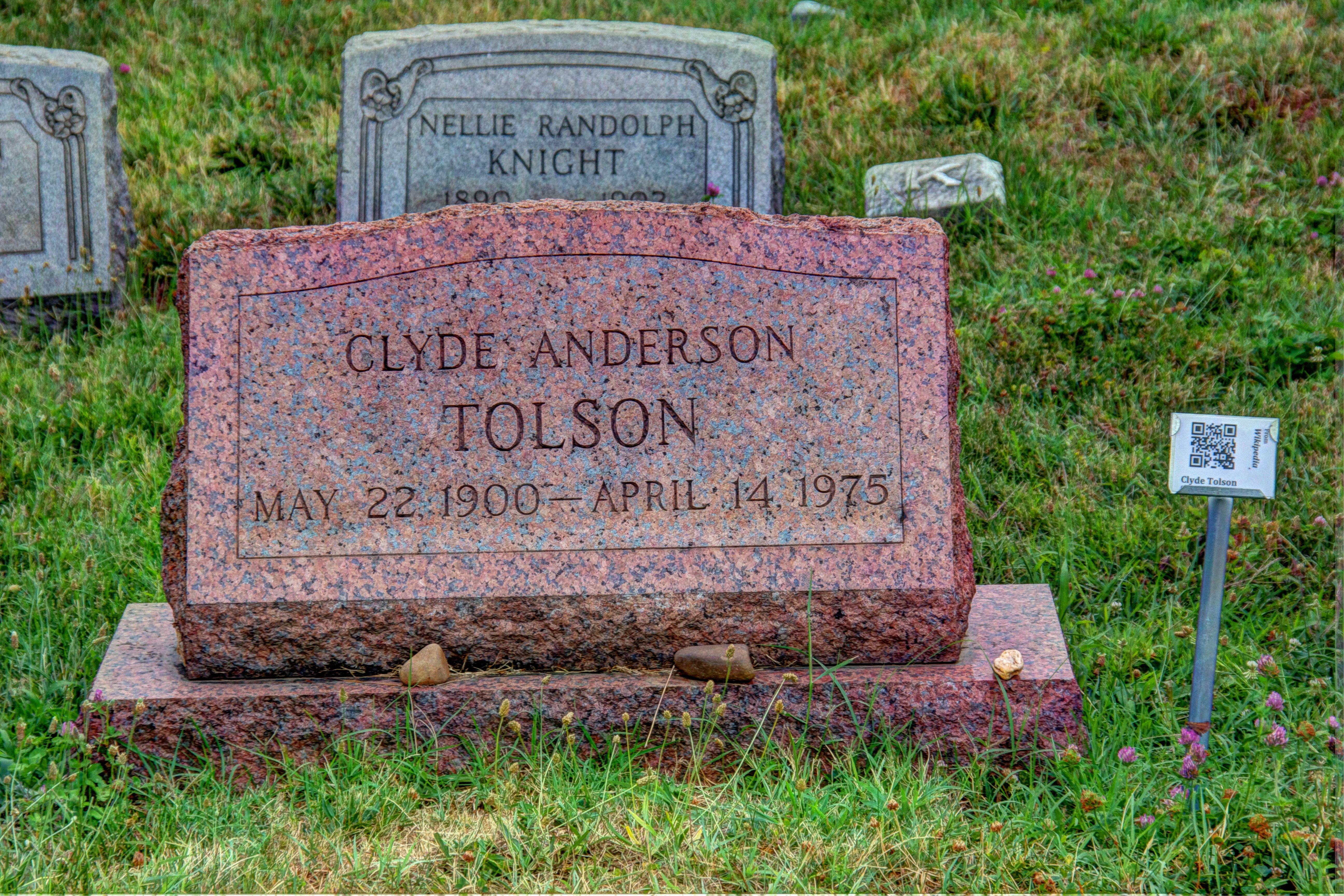 Clyde Anderson Tolson. May 22, 1900 - April 14, 1975. Congressional Cemetery. Washington D.C.